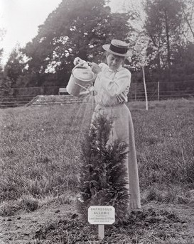 Emily Blathwayt. This picture was taken by Colonel Linley Blathwayt and was stored on glass negatives. The Blathwayt's home of Eagle House way the home of Linley, Emily and Mary Blathwayt who all actively supported the suffragette cause. Nearly all the prominient UK suffragettes stayed with them and these photos and dozens of trees were planted to commemorate their visits. Col. Linley Blathwayt took these pictures between 1908 and 1912. He died in 1919. The pictures are made available in larger formats by .